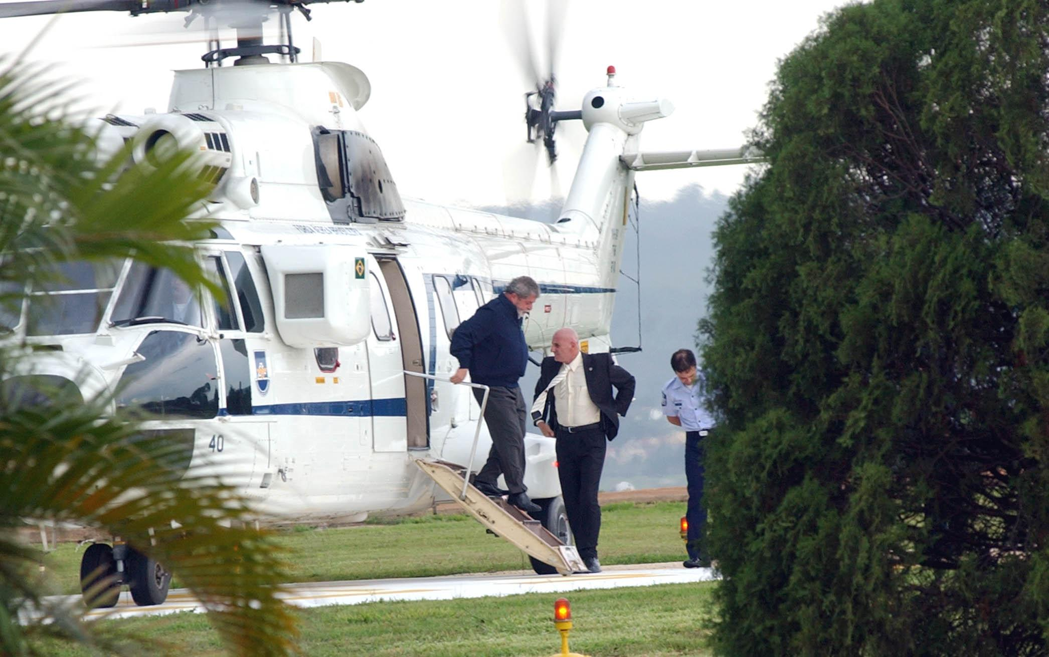 President Lula arrives at Brasília Air Force Base.